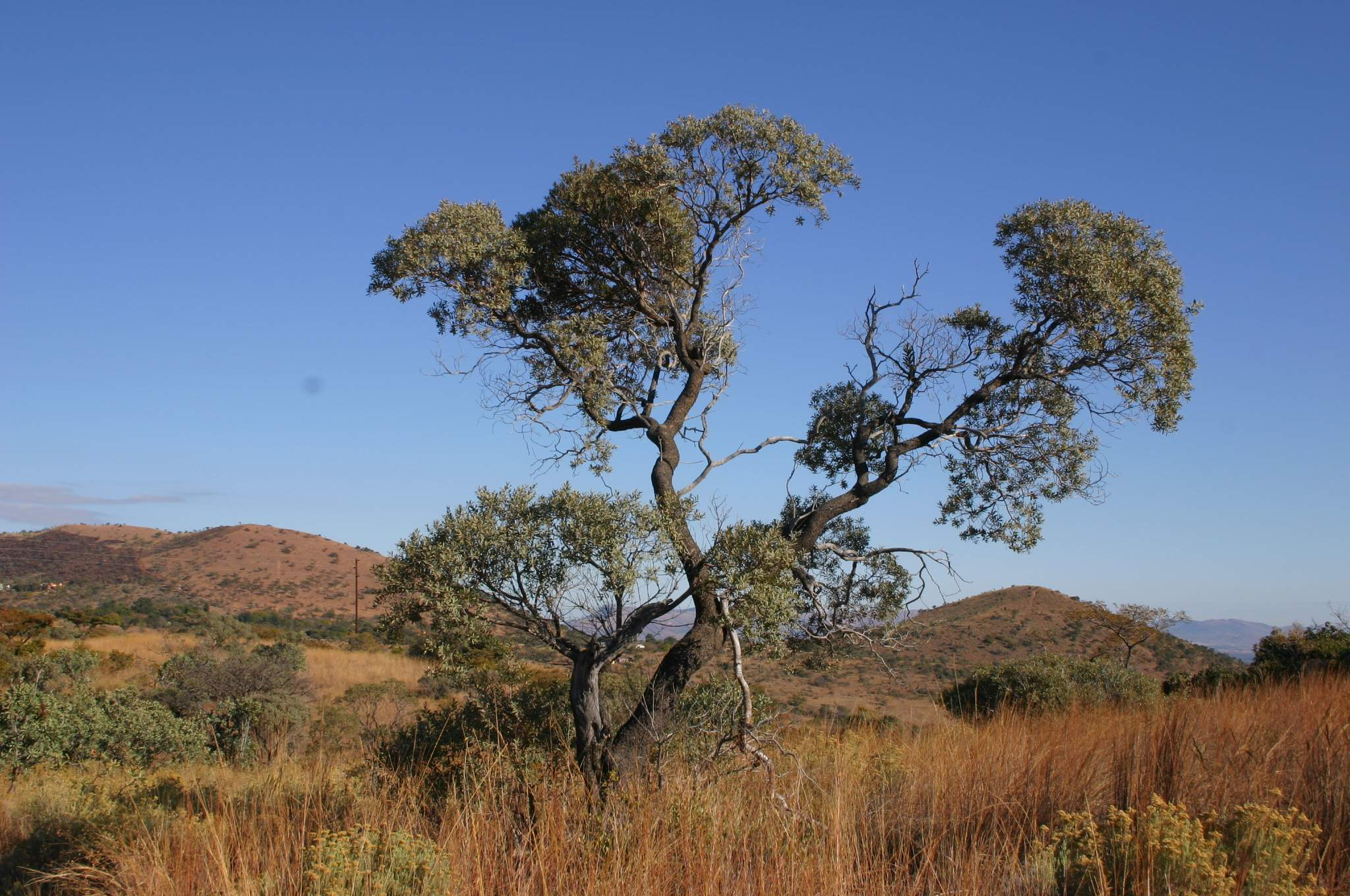 Common rezin tree at Oppler farm, Magaliesberg